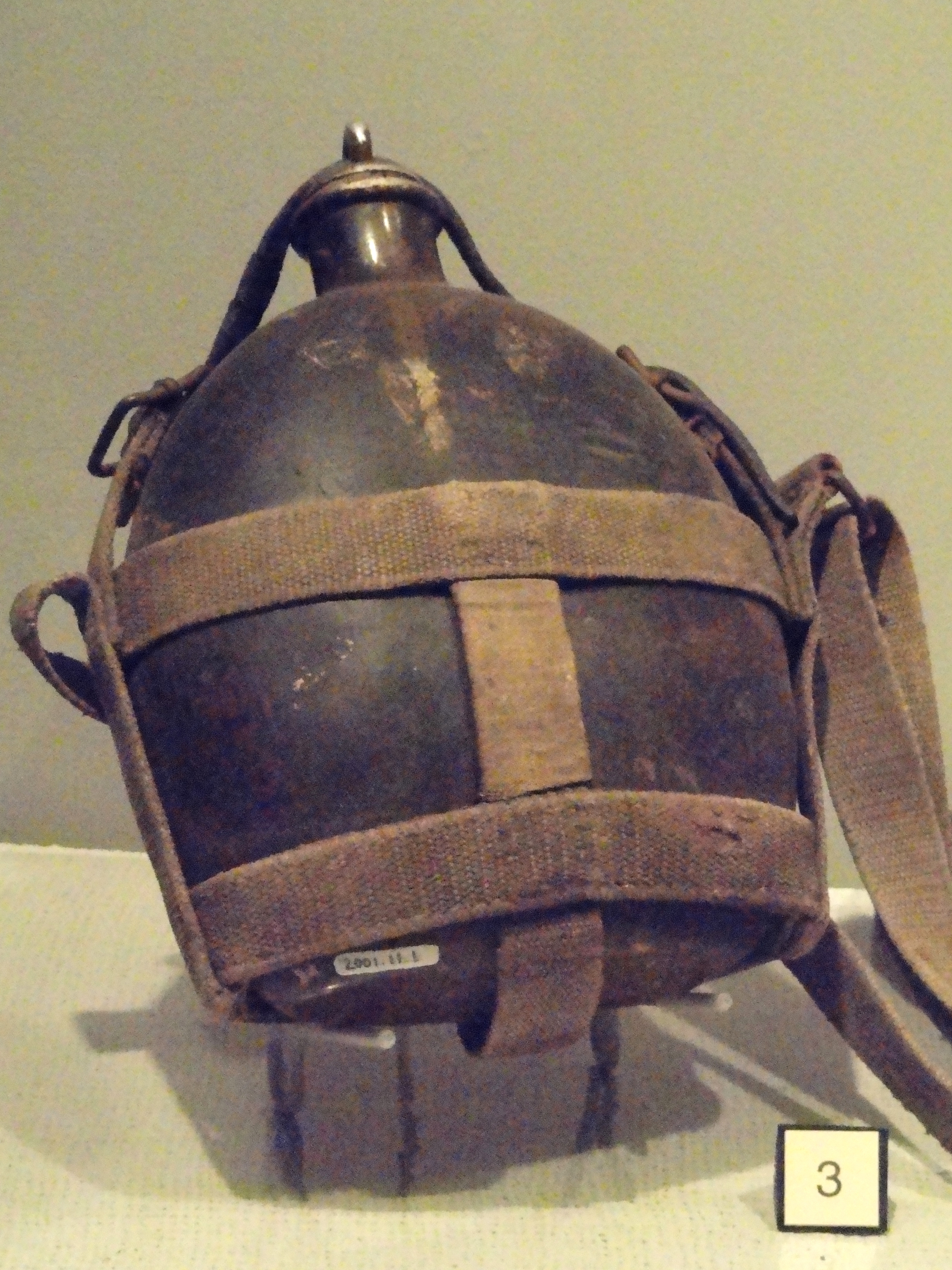 Canteen, Japanese, c. 1942. Exhibit in the North Carolina Museum of History, Raleigh, North Carolina, USA.